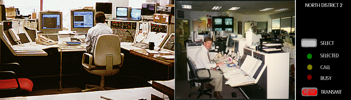 Photo images from "Transit Management Centers: Human Factors Issues," TRB Human Factors Workshop, January 7, 2001, US Department of Transportation, Federal Transit Administration, Office of Mobility Innovation, Advanced Public Transportation Systems Division, Volpe National Transportation Systems Center. PowerPoint presentation by Don Sussman and Mary Stearns. Left image is dispatch with AVL. Right image is dispatch supervisor position. Drawing of channel appearance on console is self-made GDFL by David Jordan. Link to original PowerPoint file valid as of 04/10/2007.